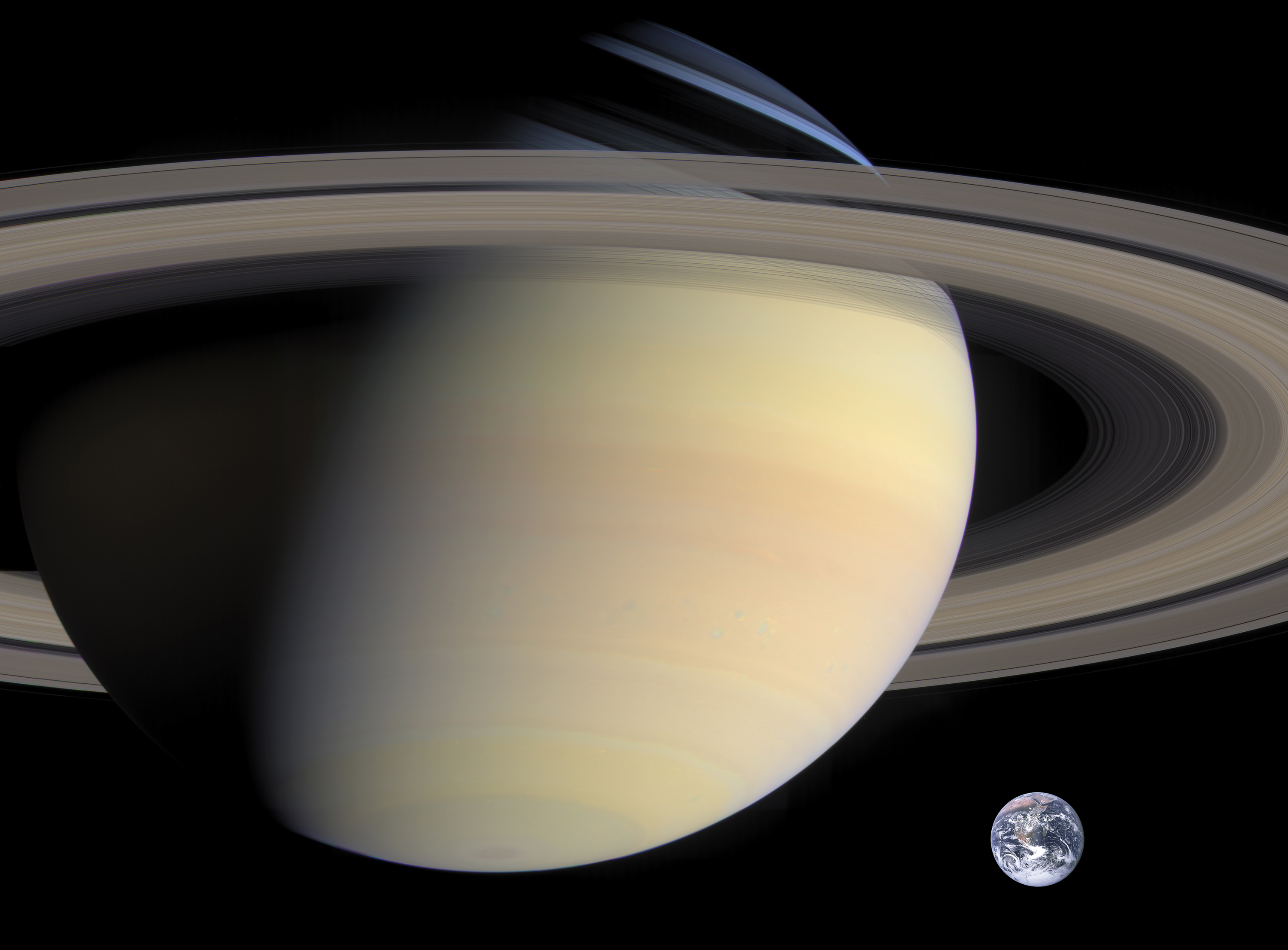 Rough comparison of sizes of Saturn and Earth.